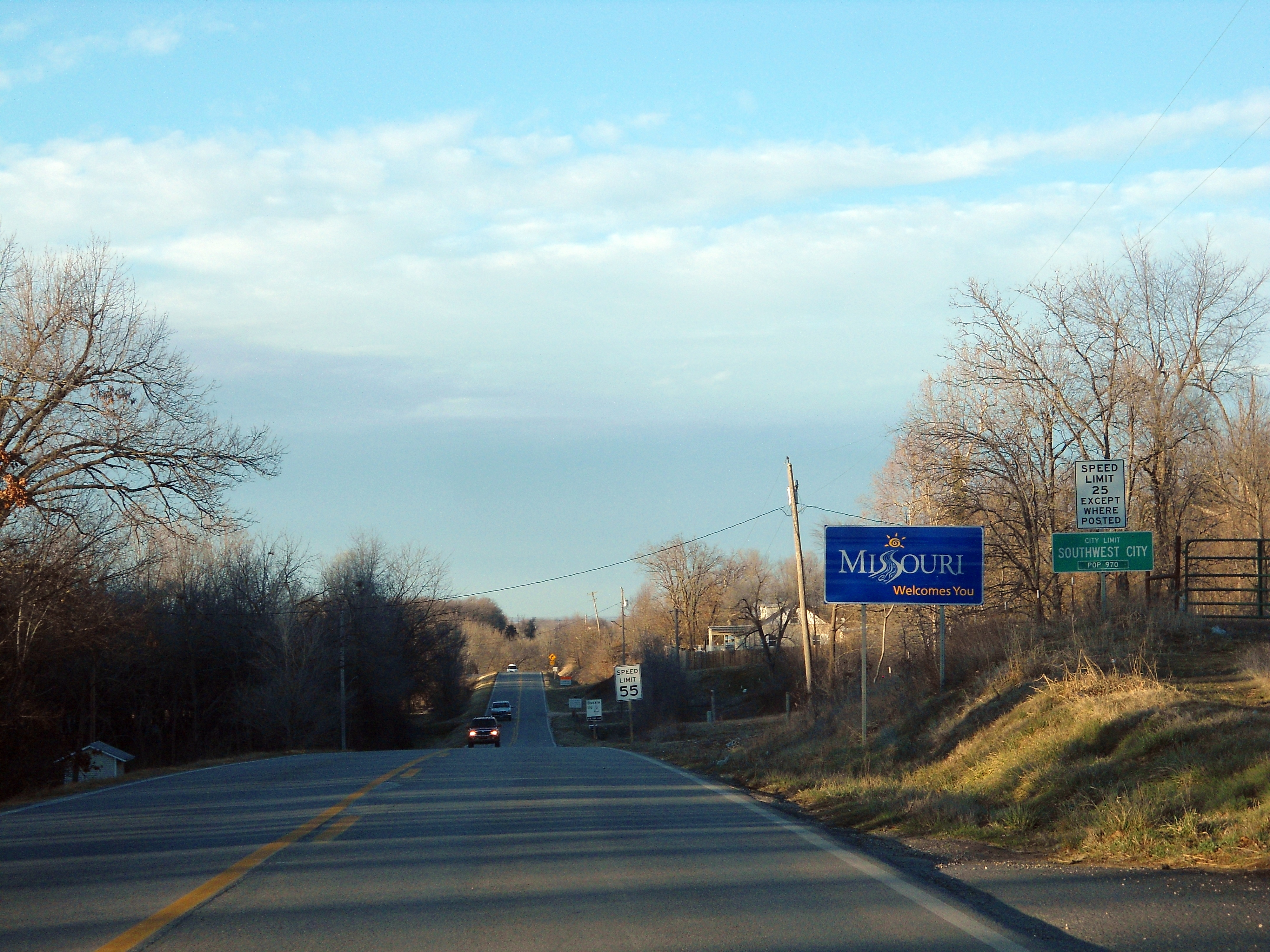 City limits of Southwest City, Missouri. Shot from Missouri Route 43 near the Arkansas/Oklahoma/Missouri tripoint